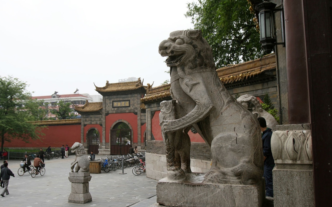 ChaoTianGong's Chinese Lion and side gate